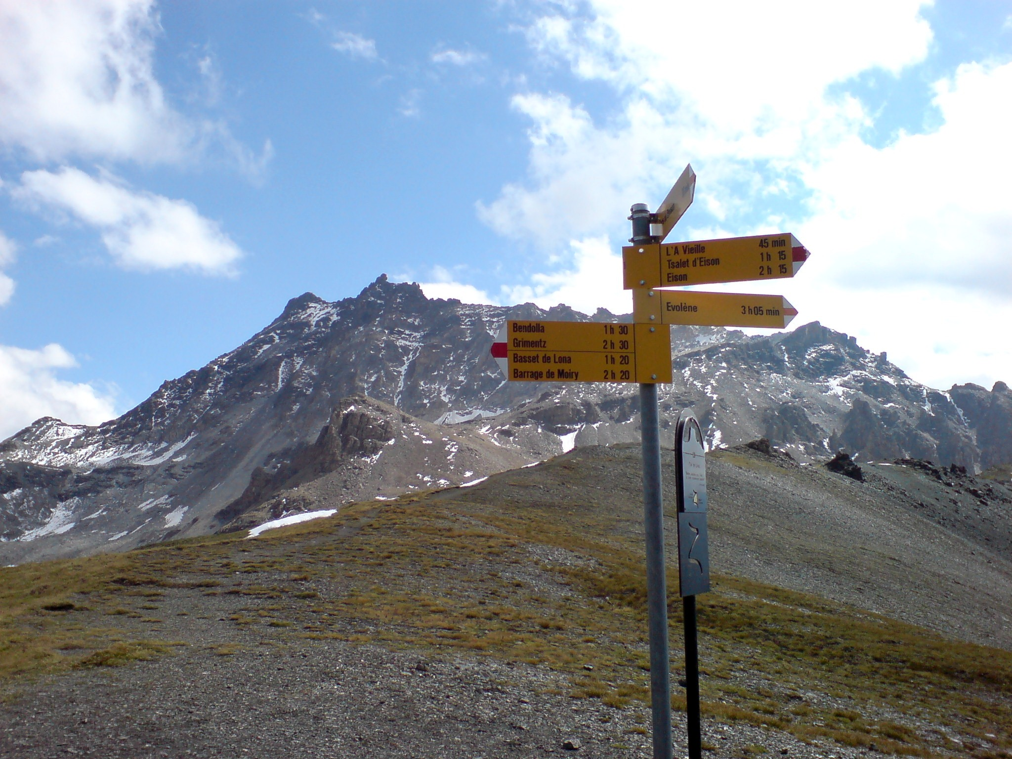 Sasseneire (3254m) from Pas de Lona (2787m) between Evolène and Grimentz.